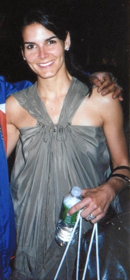 Actress Angie Harmon